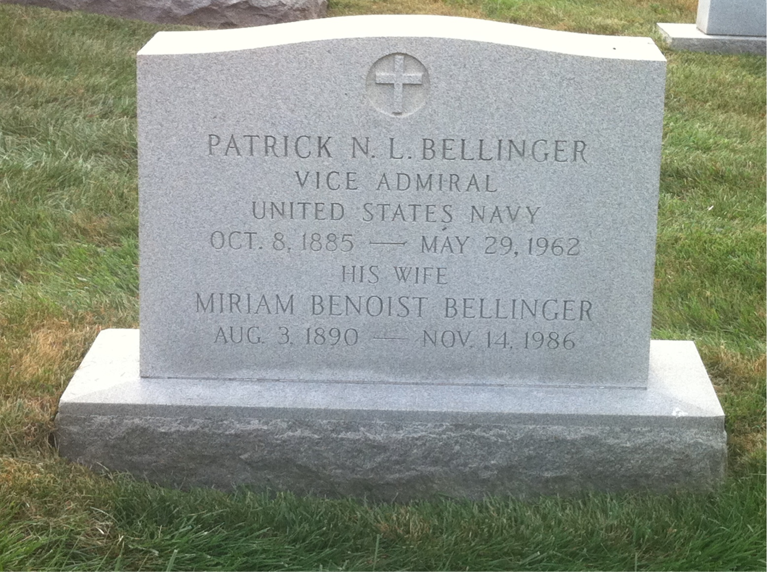 Vice Adm. Patrick N. L. Bellinger and Miriam Benoist Bellinger, grave at Arlington National Cemetery